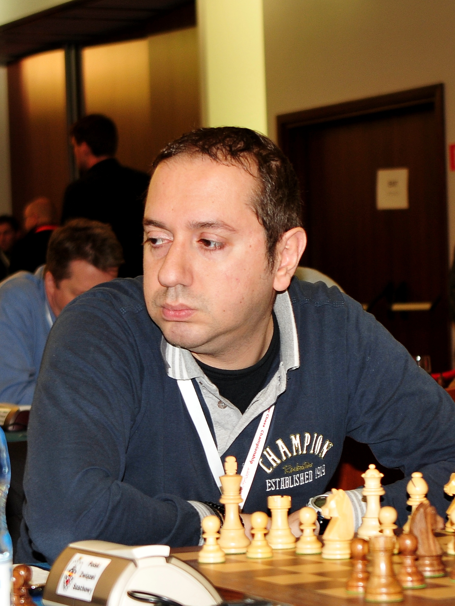 GM Ioannis Papaioannou, European Chess Team Championship Warsaw 2013